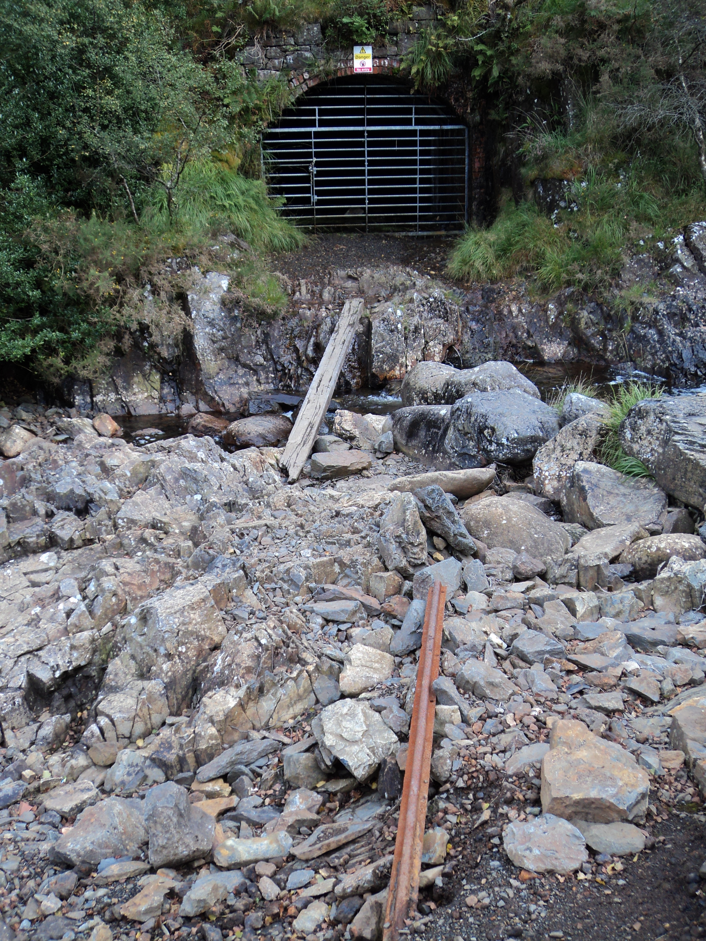 The entrance to Klondyke mine, viewed fron the mill